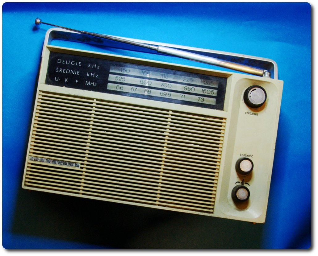 Polish transistor radio Eltra Izabella